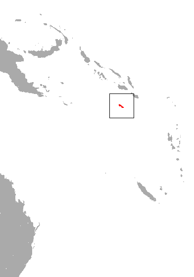 Rennell Flying Fox (Pteropus rennelli) range